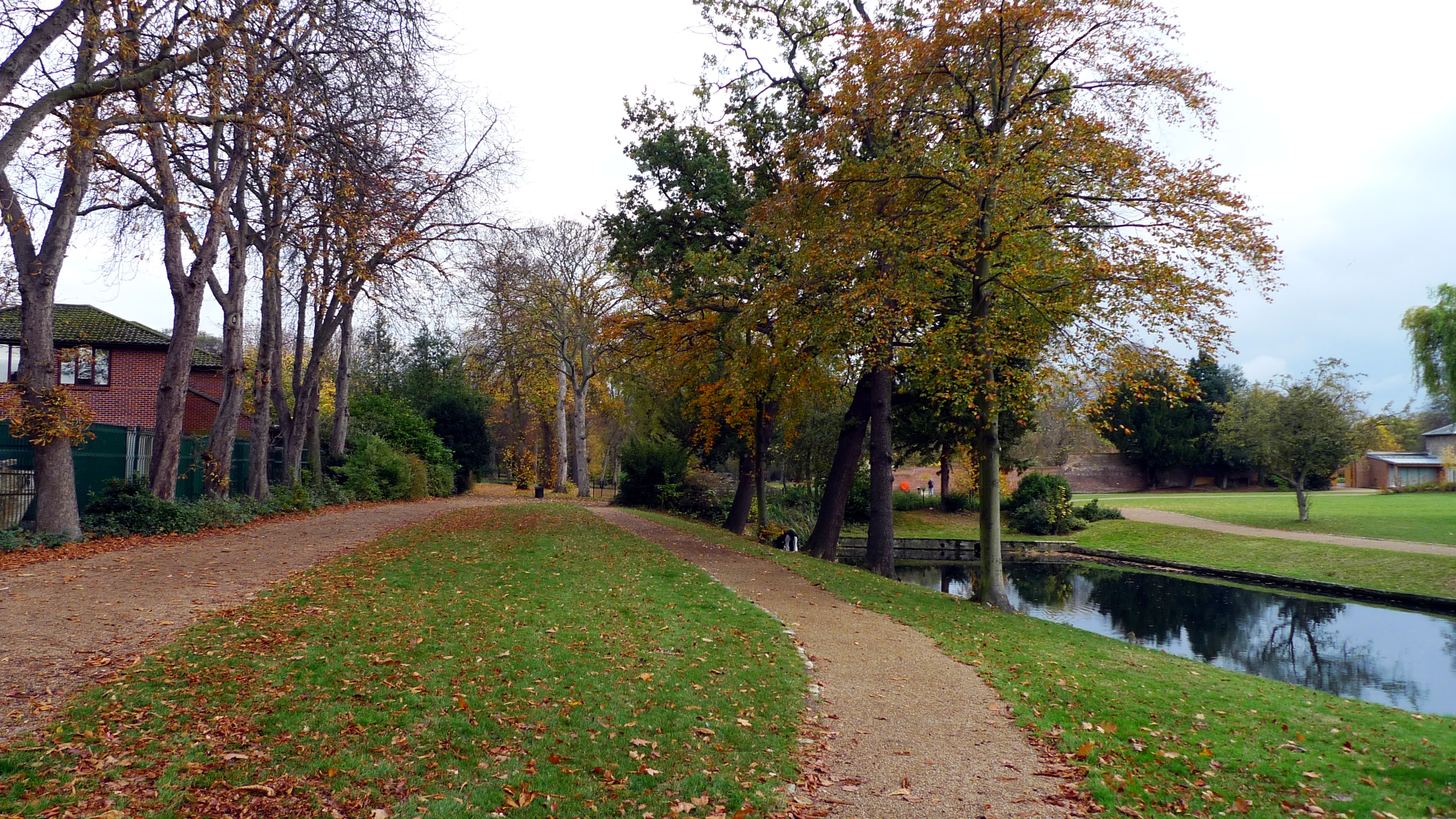 Entering the park from Cranbrook Road in the north, walking towards the ornamental pond. Photo taken November 2009. Owner: London Borough of Redbridge.